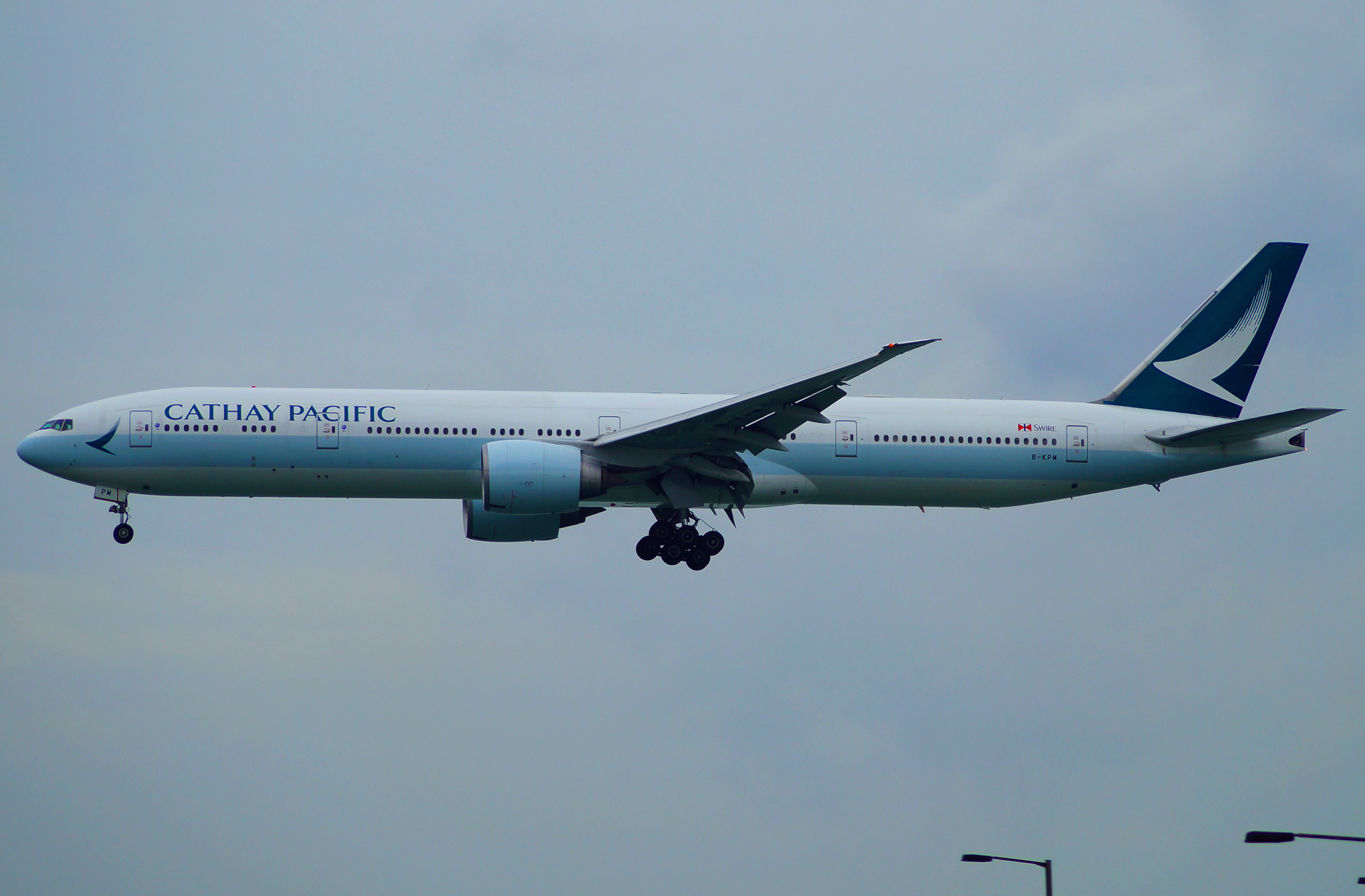 B-KPM